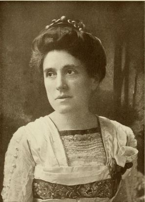 Helen G. Rathbun, Kajiwara Photo, Johnson, Anne (André) "Mrs. Charles P. Johnson", 1871-. Notable women of St. Louis, 1914; (Kindle Location 4402). [St. Louis, Woodward.]